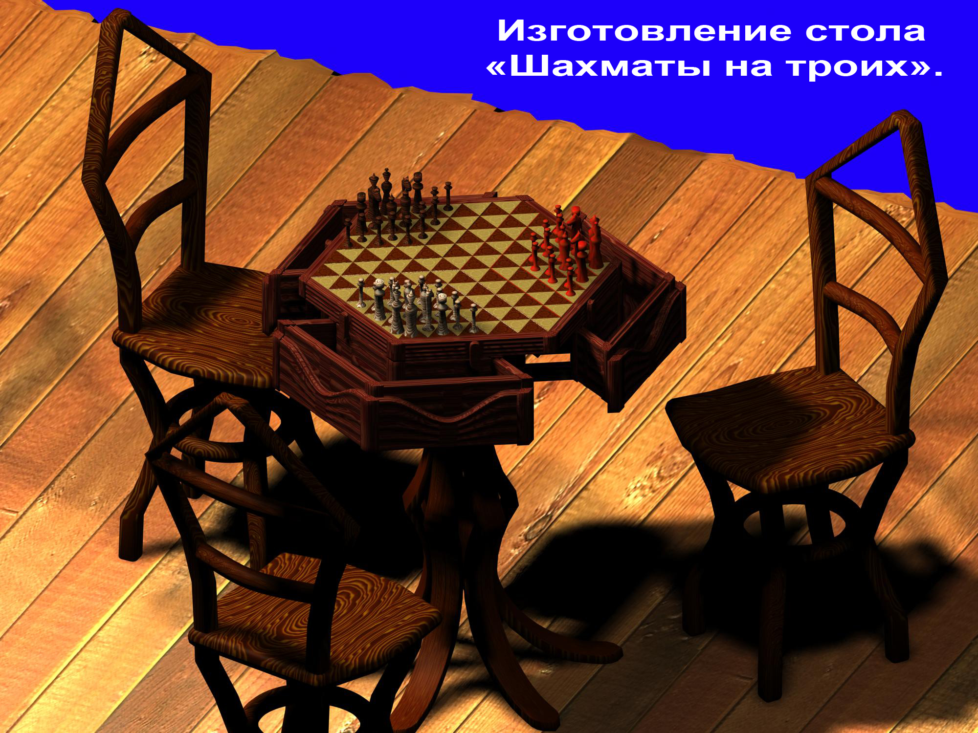 Chess table for game three together